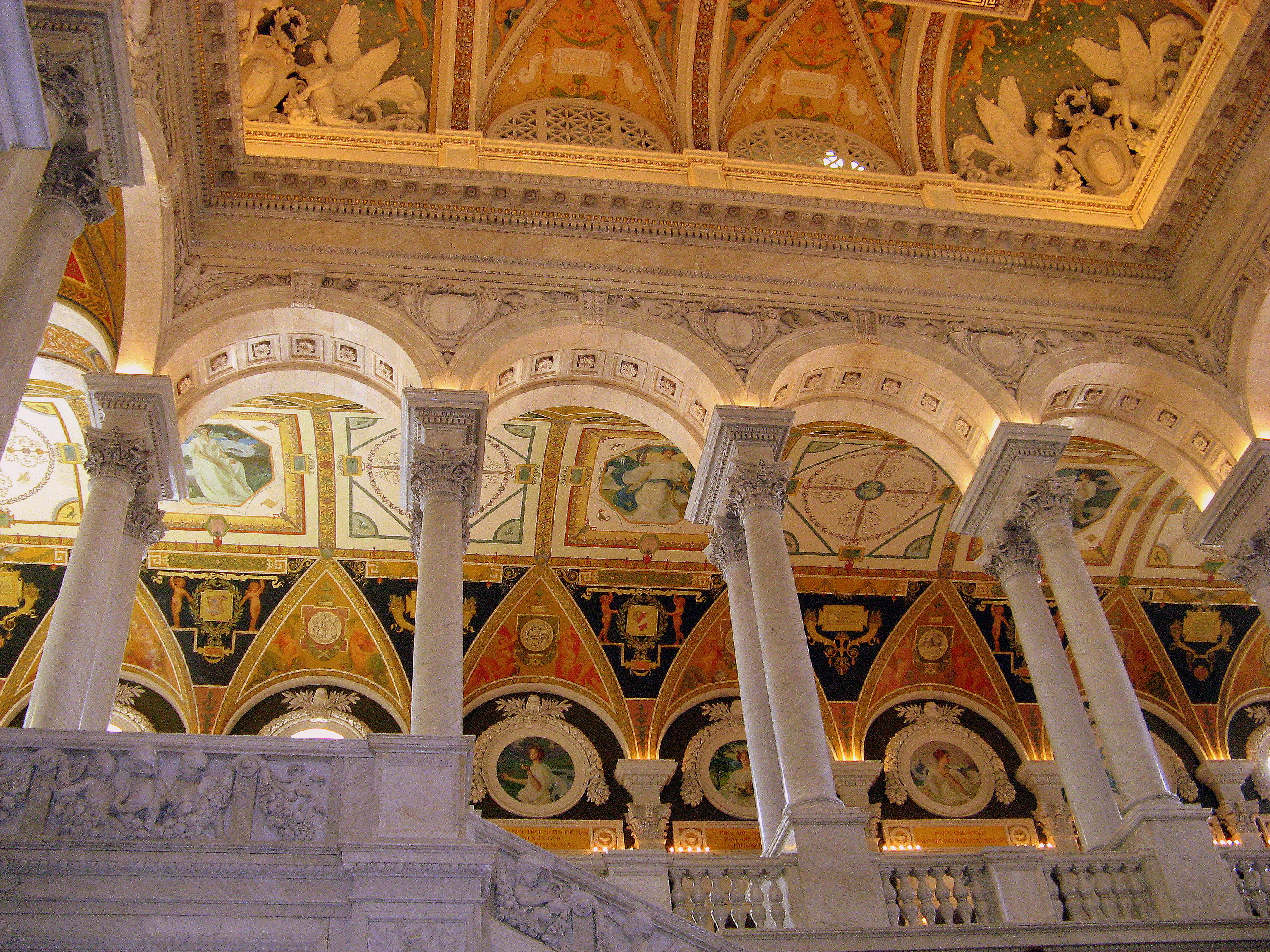 Interior of the Library of Congress Washington DC